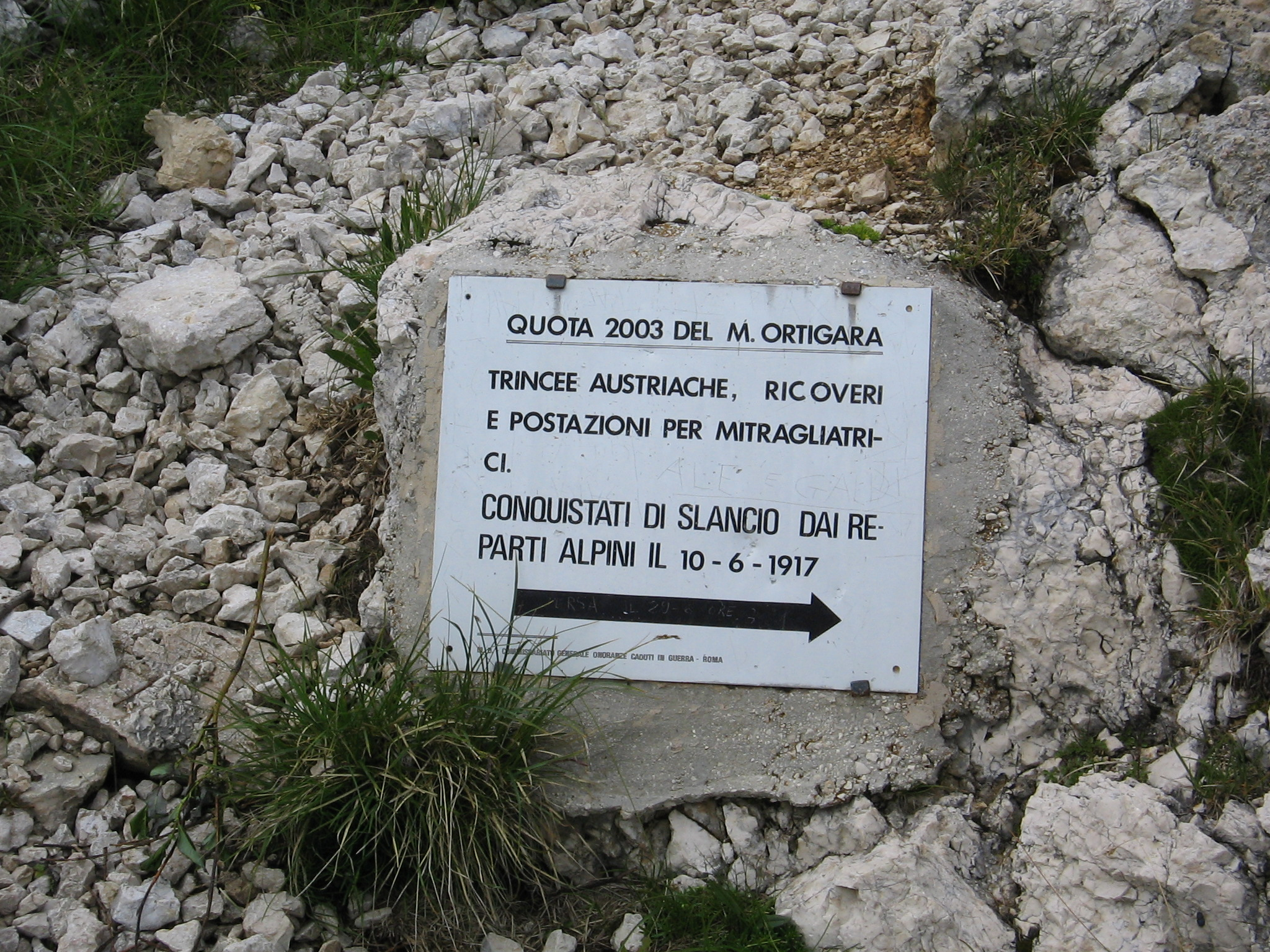 Italian tablet on the path of the Vallon dell'Agnellizza